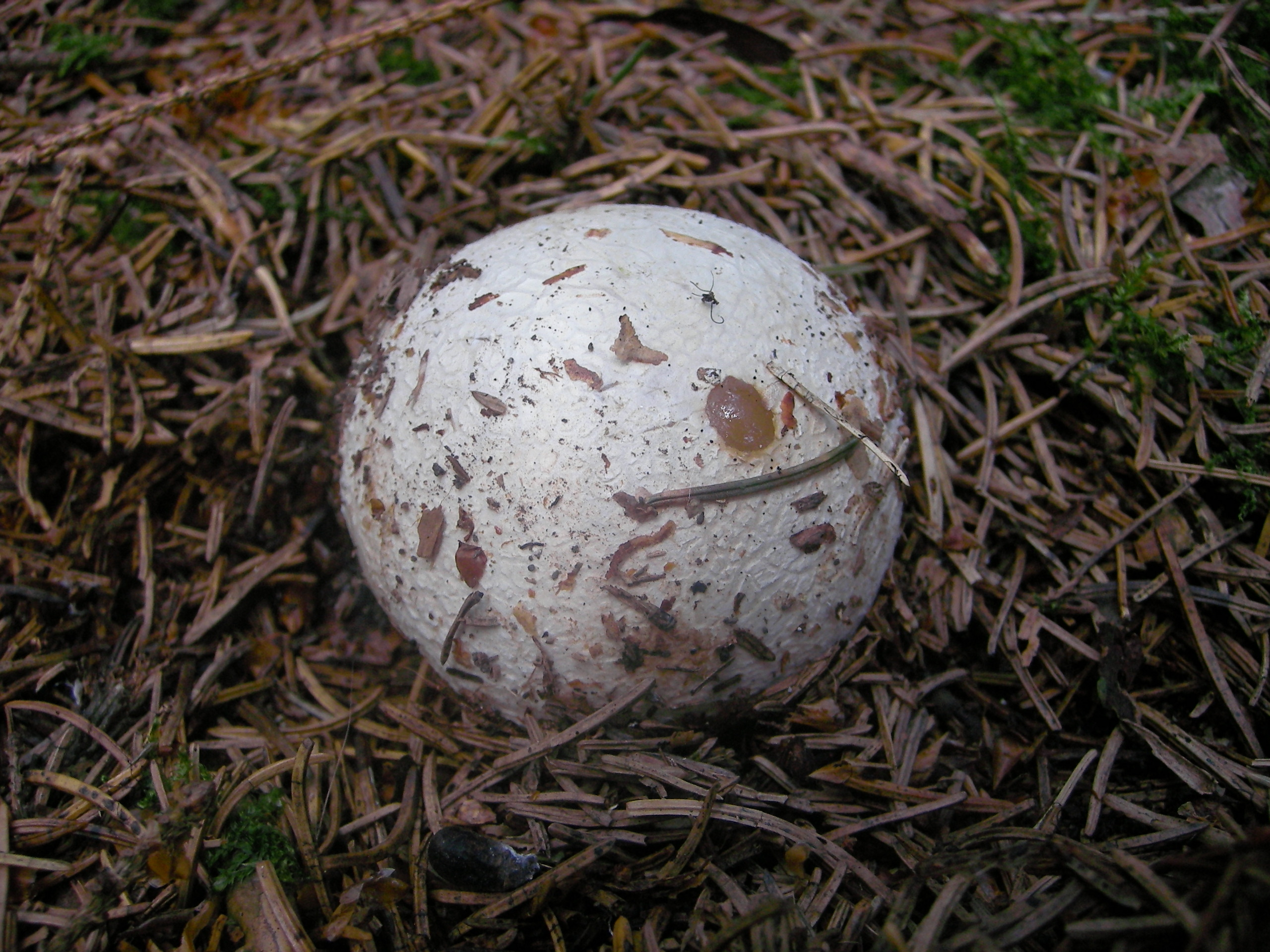 Young sinkhorn (Phallus impudicus)